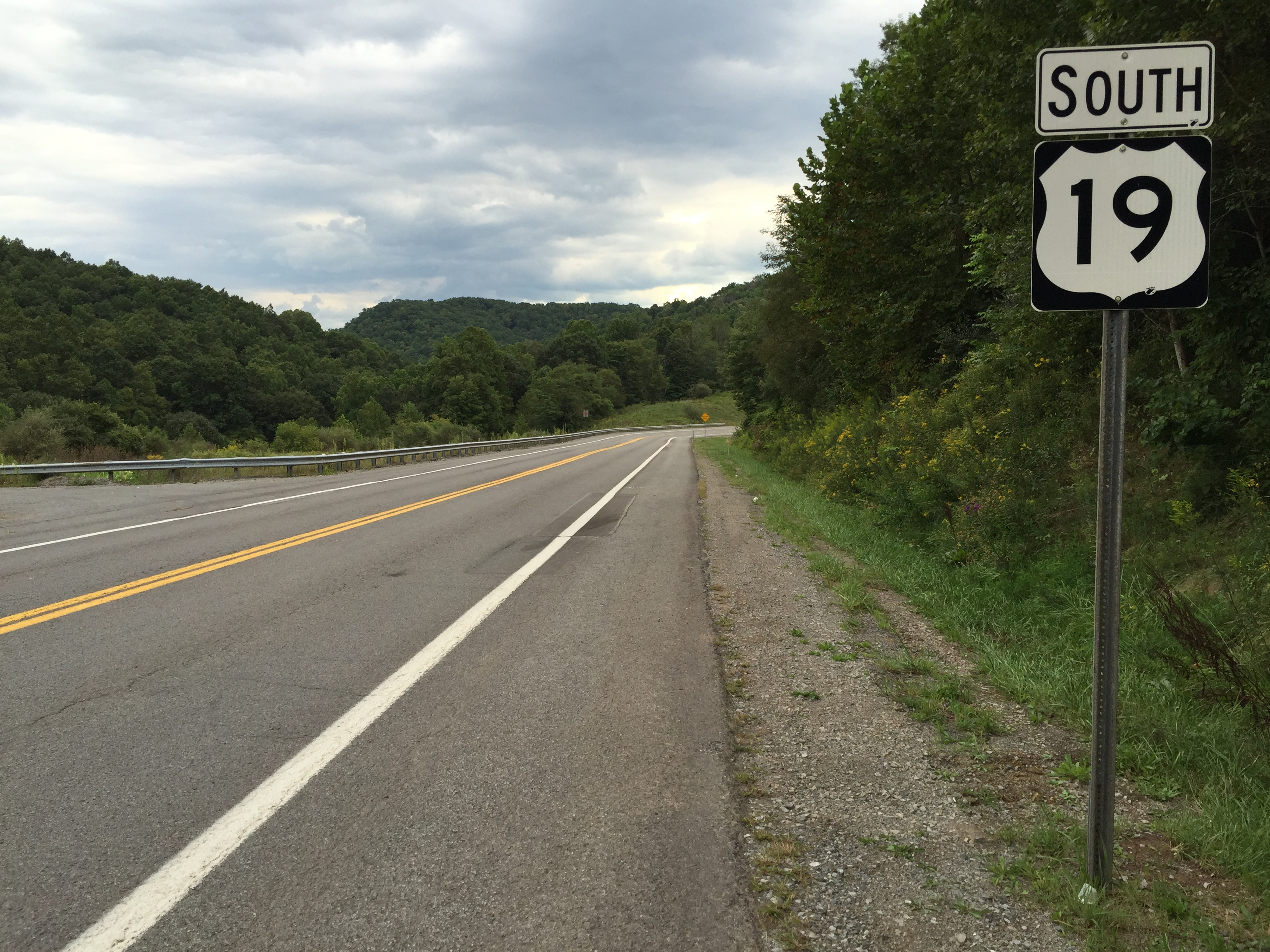 View south along U.S. Route 19 at Interstate 79 (Jennings Randolph Highway) in Lewis County, West Virginia